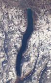 A photo of Canandaigua Lake